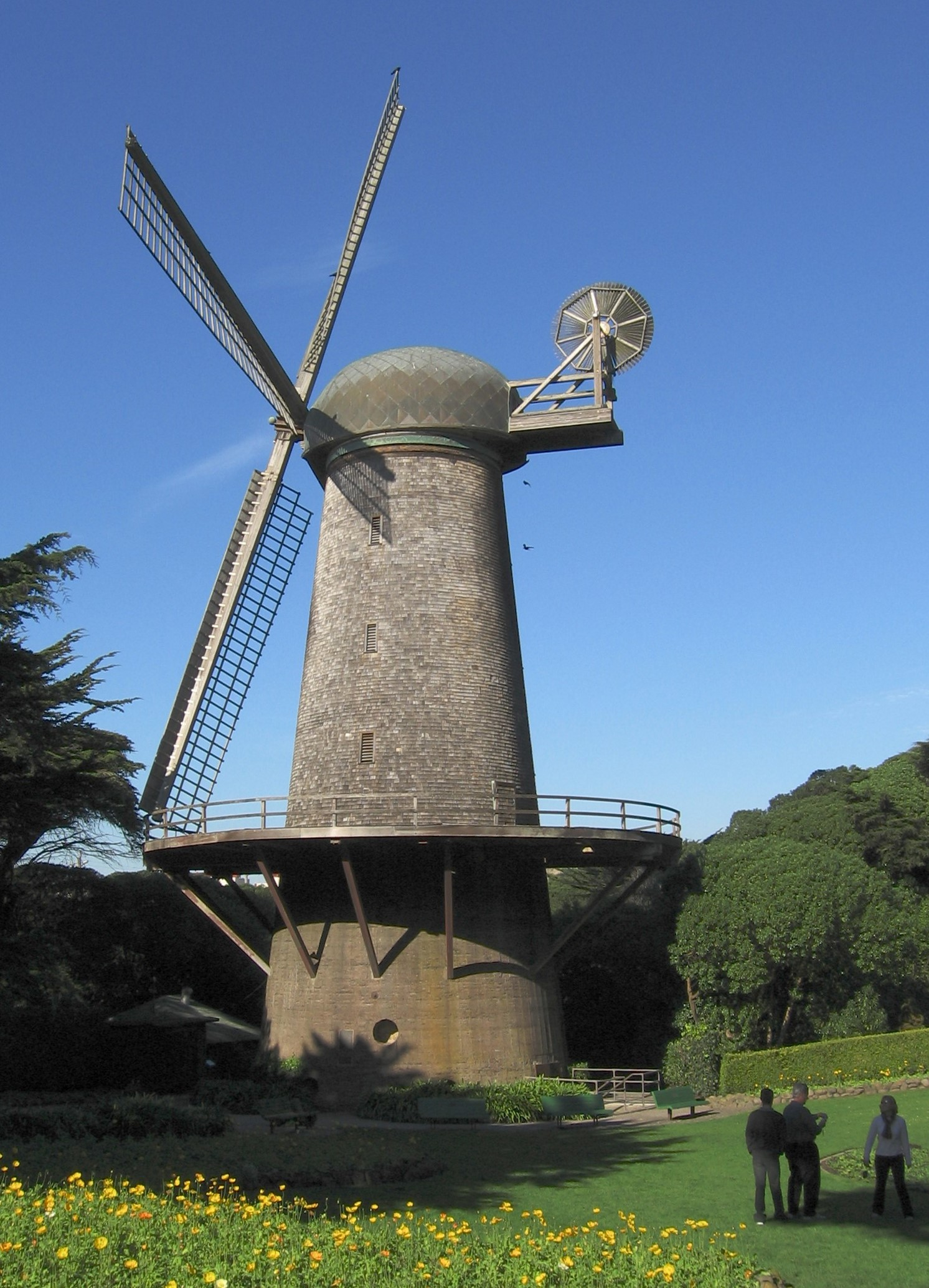 North Windmill in Golden Gate Park. Built in 1903, it was used to pump water throughout the park. The blades seen here were used to carry canvas sails. The smaller wind wheel was connected to gearing that rotates the main blades into the wind. Image by User:SamuelWantman. See also: 100px